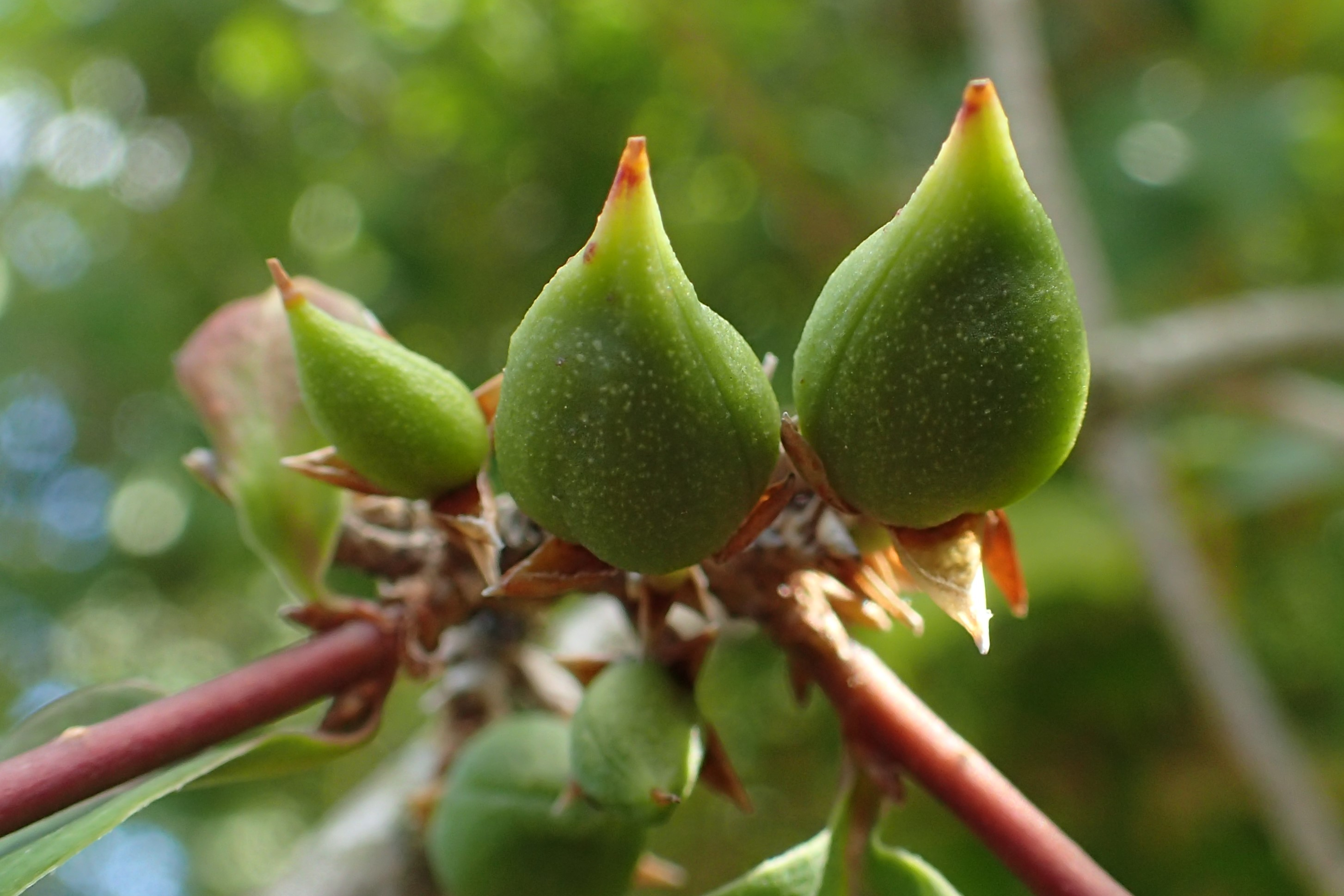 Forsythia giraldiana in the UMCS Botanical Garden in Lublin